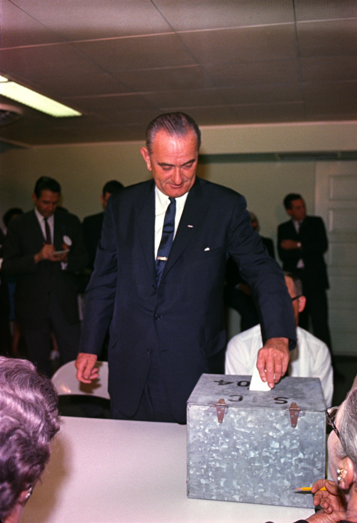 President Lyndon B. Johnson votes at the 1964 presidential election